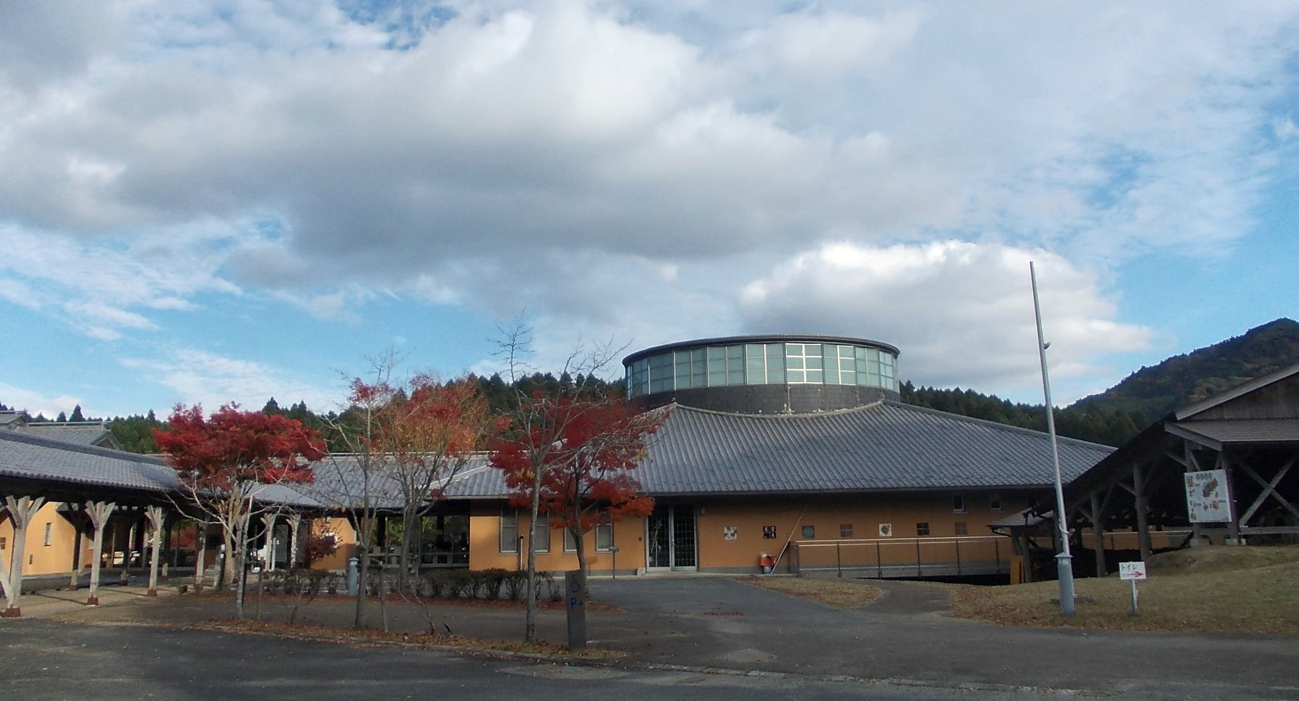 Traditional Industry Hall of Koishiwara Pottery, Toho, Fukuoka, Japan